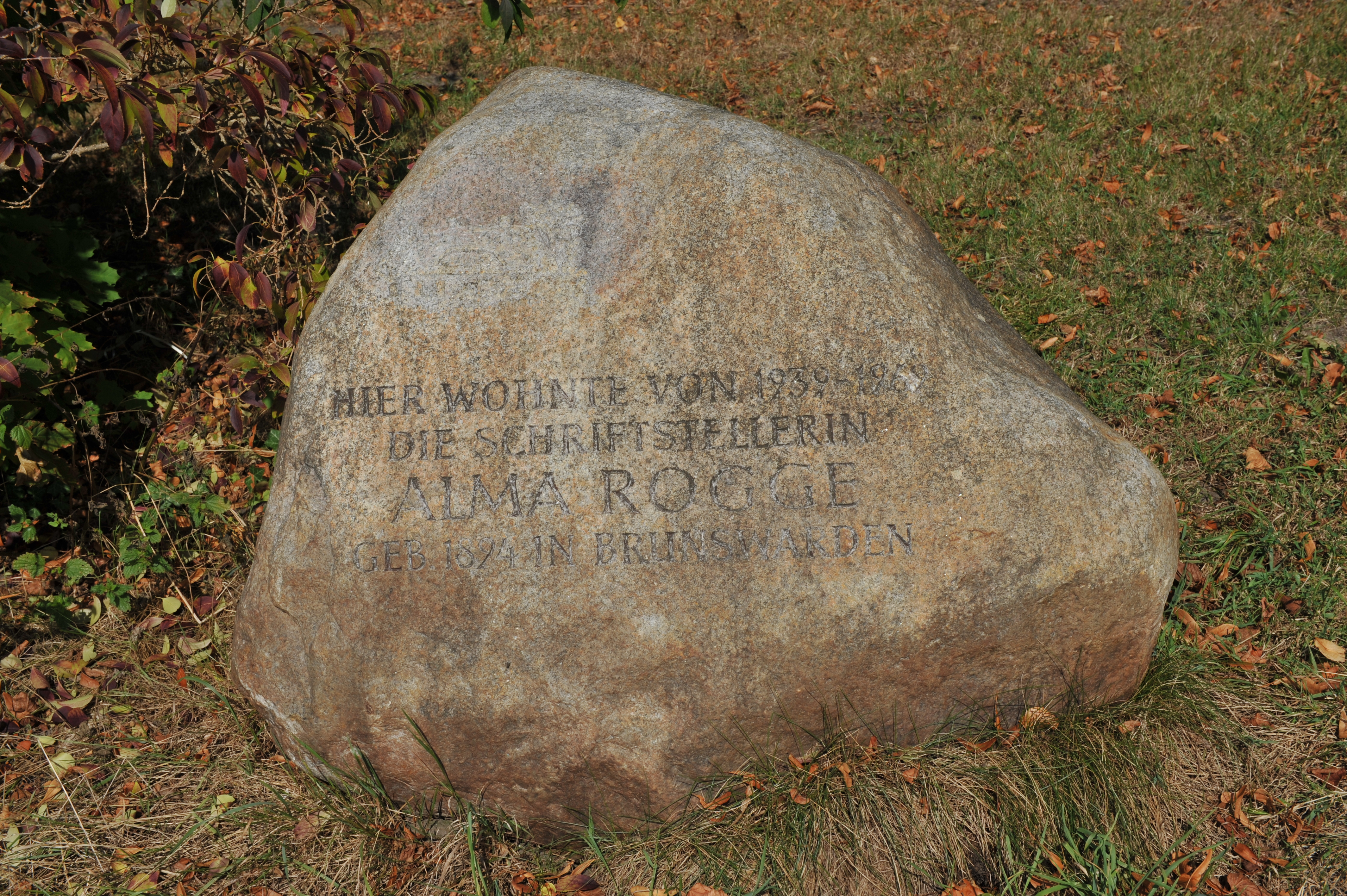 Glacial erratic, inscribed to commemorate the author Alma Rogge